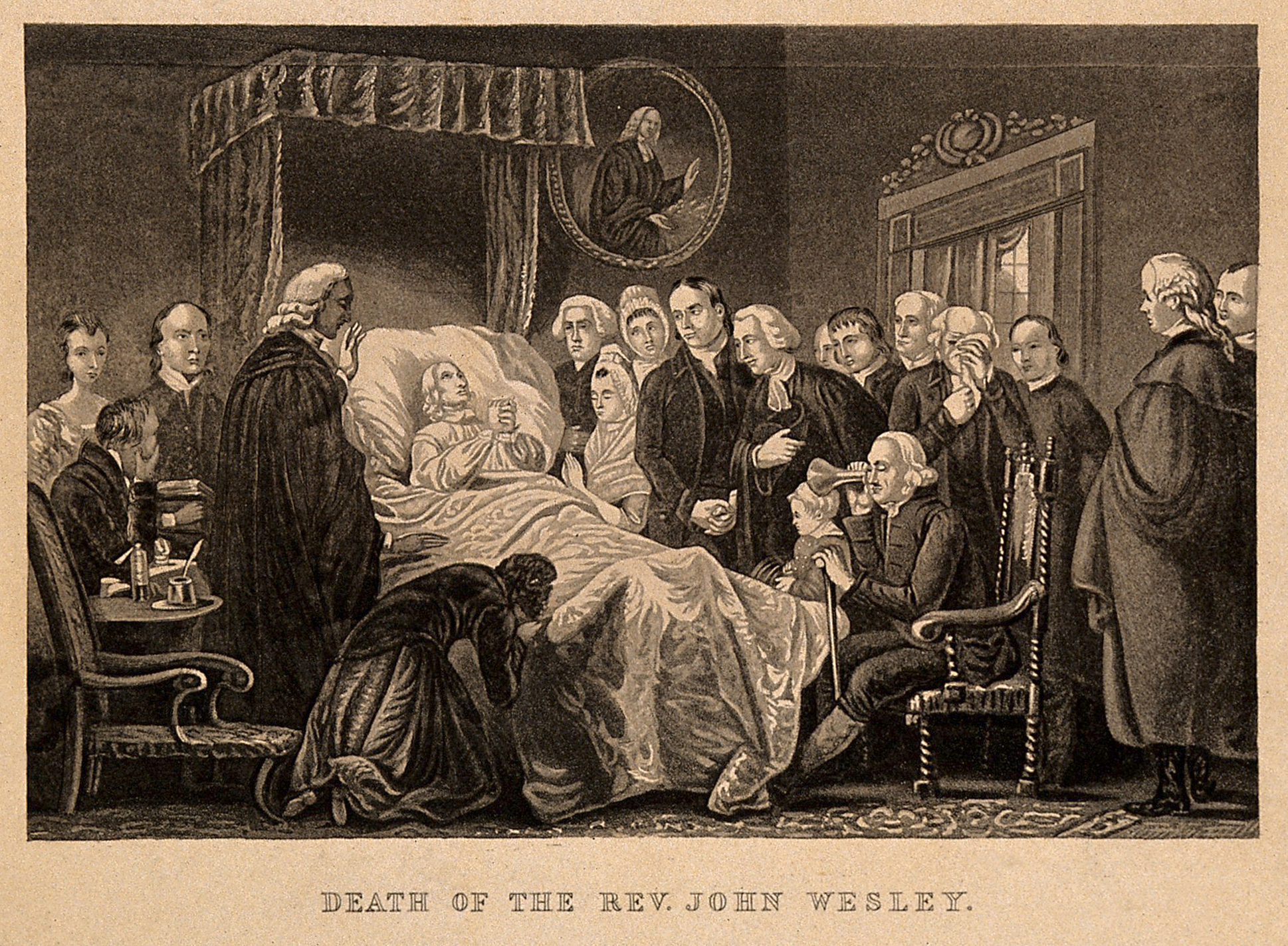 The death-bed of John Wesley, 1791. Process print after an aquatint by John Sartain. Iconographic Collections Keywords: John Wesley